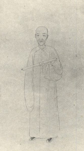 GAI Qi, painter and scholar of the Qing Dynasty.